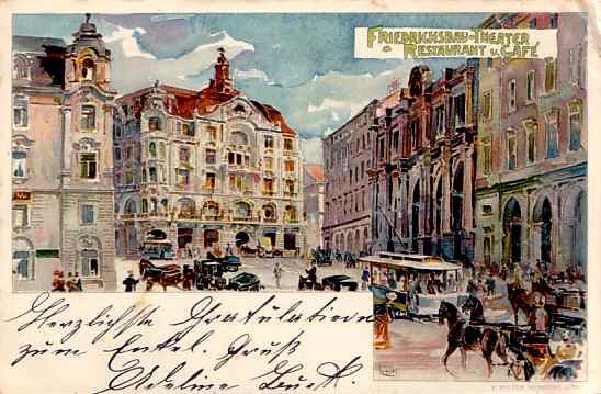 Stuttgart, Friedrichsbau-Theater, a variety theatre, built 1900 by Bihl and Woltz. The complex also included shops, offices, and a café. Destroyed by bombs on 25 July 1944. Finally demolished 1955 in favour of a street. Postcard